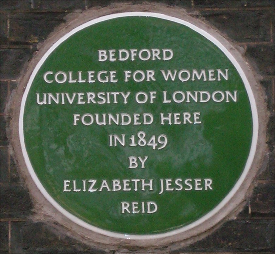 Green plaque to Elizabeth Jesser Reid, founder of Bedford College for Women, on her house in Bedford Square, London, England. Photographed by me 29 September 2006. Oosoom